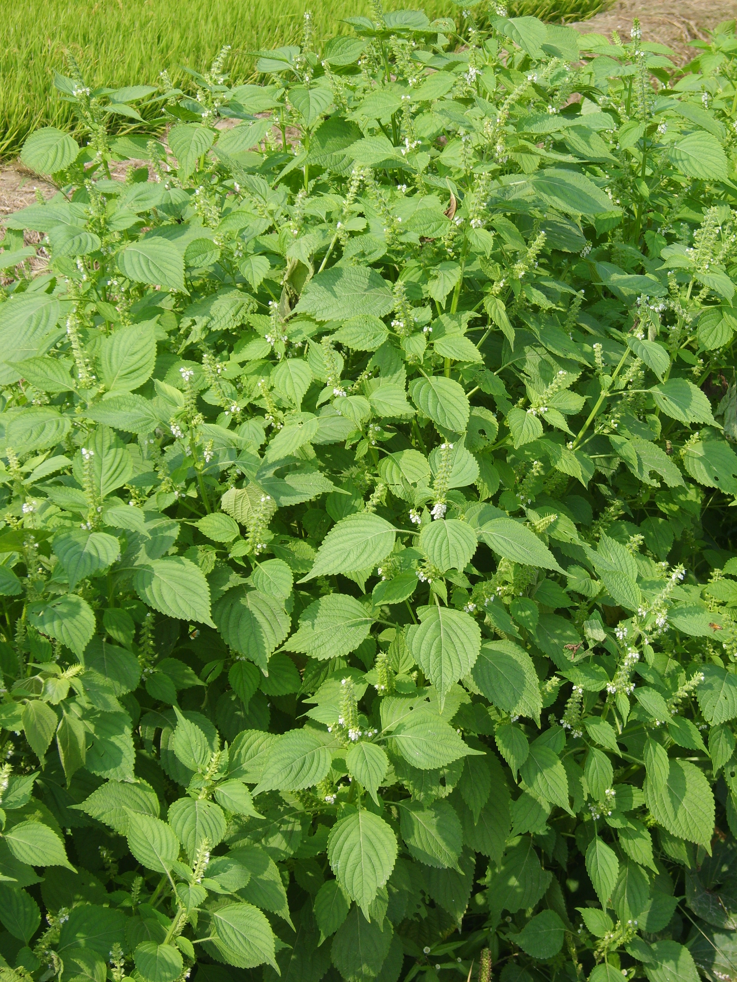 Perilla frutescens in Gimpo, Korea